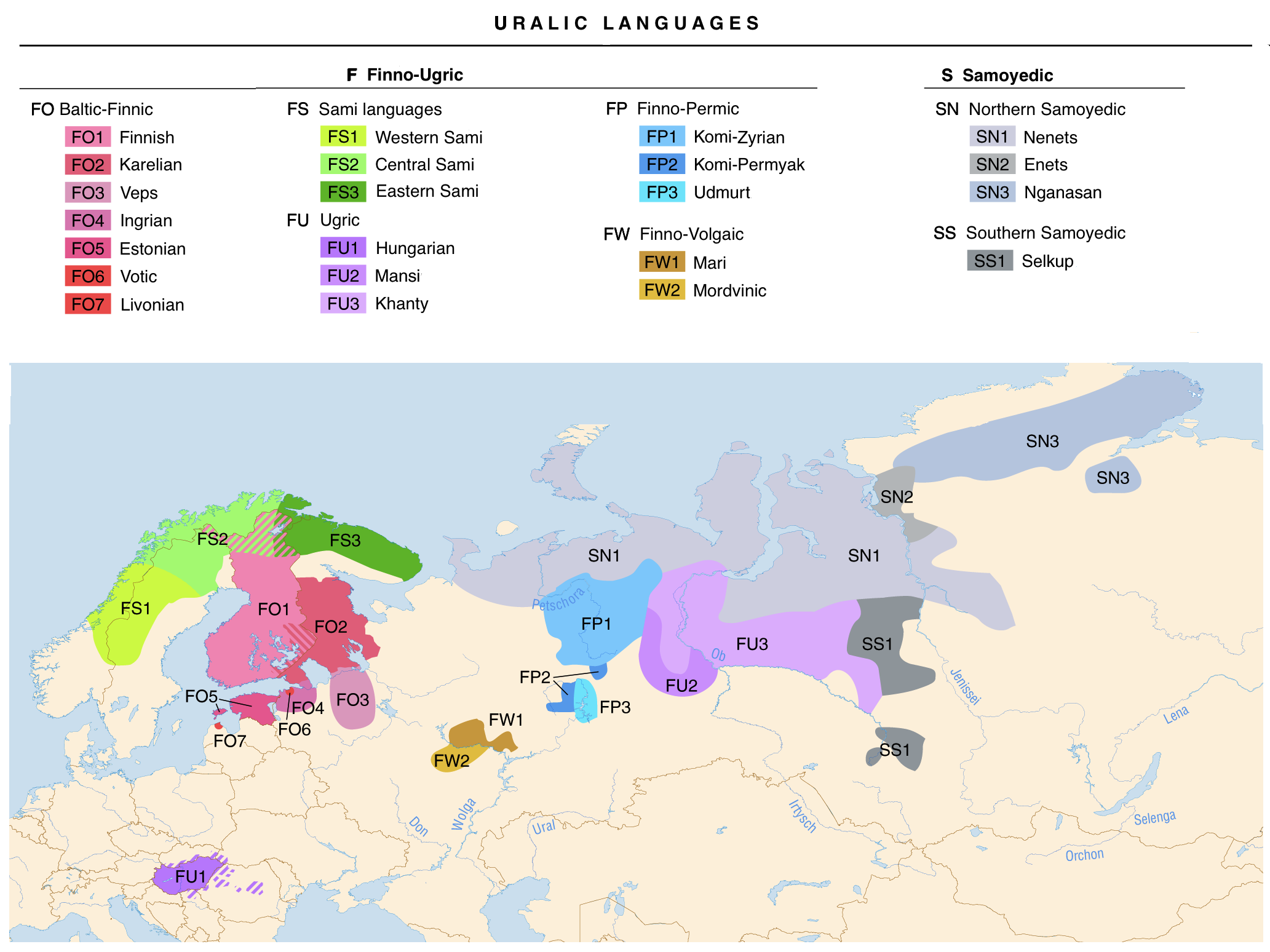 Linguistic maps of the Uralic languages